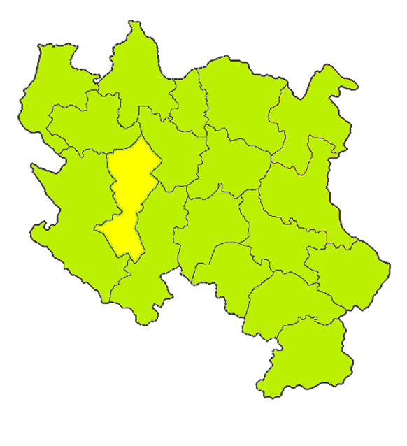 Map of Moravica